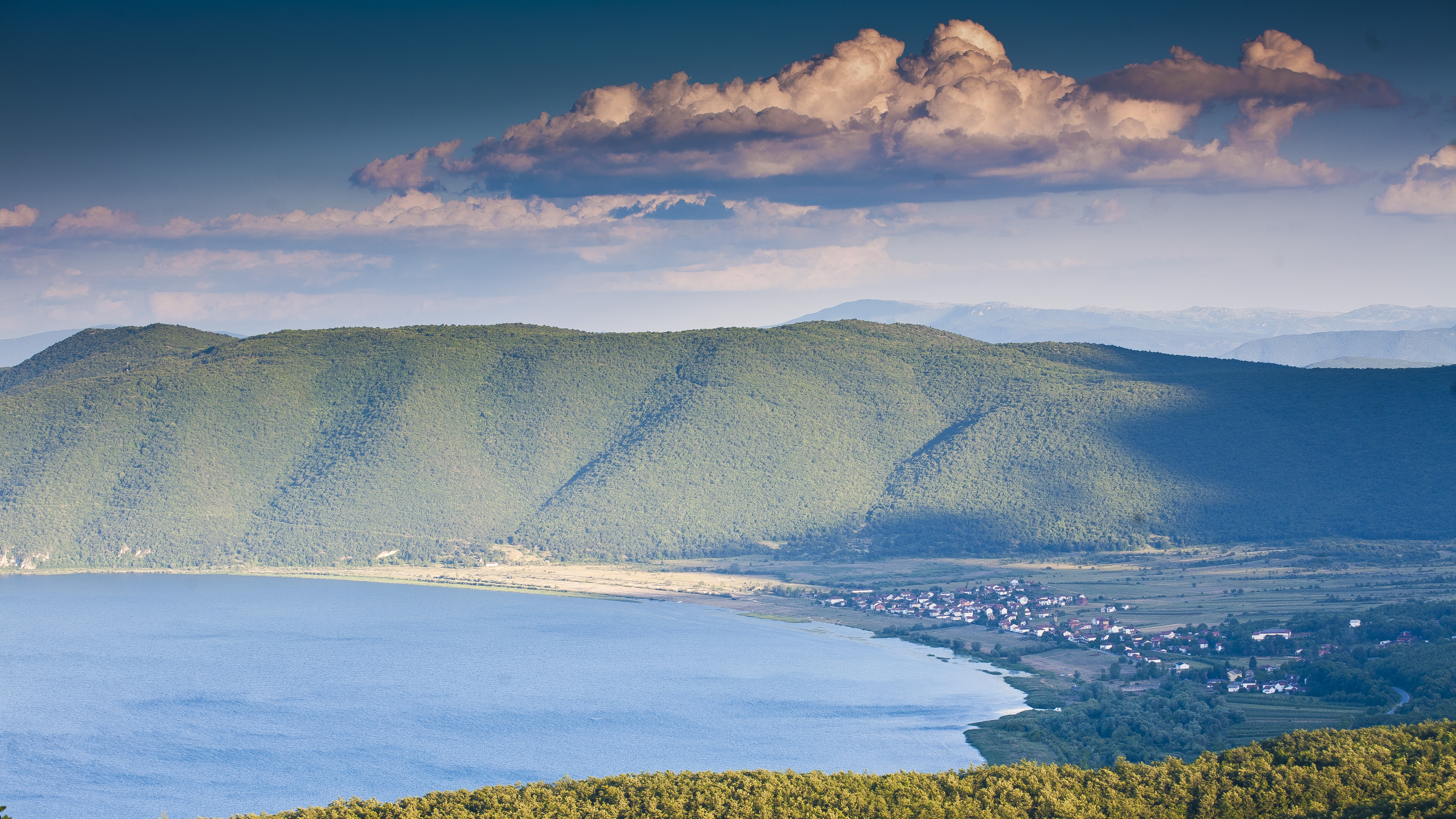 View of the Prespa Lake from the Galičica mountains, Macedonia